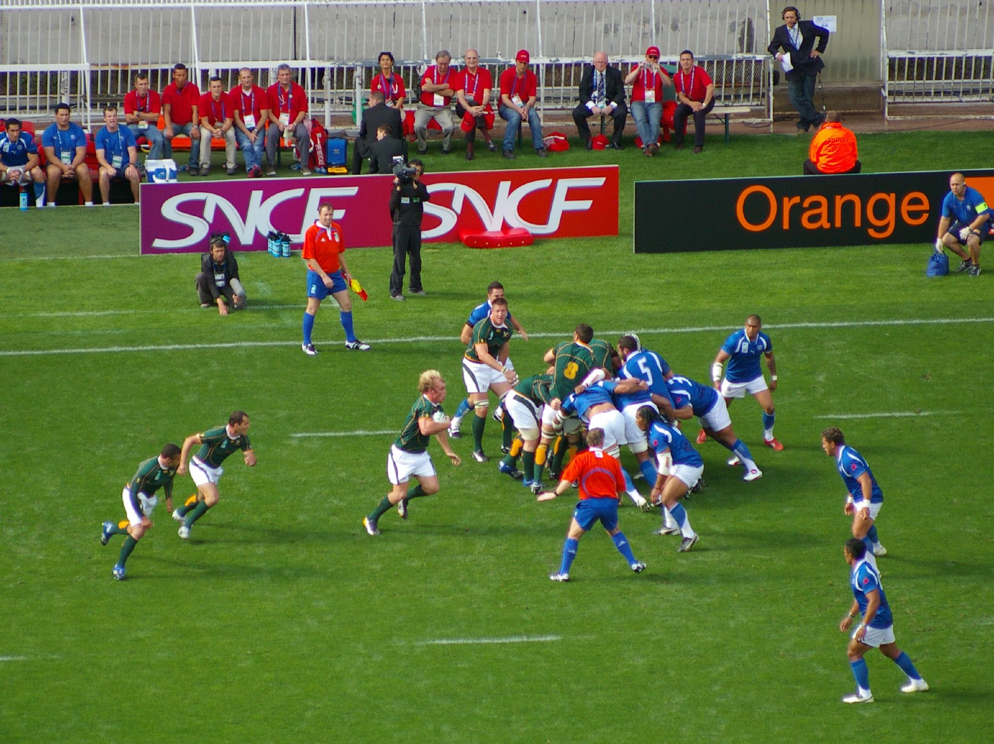 South Africa - Samoa Rugby World Cup 2007 Paris. Parc des Princes